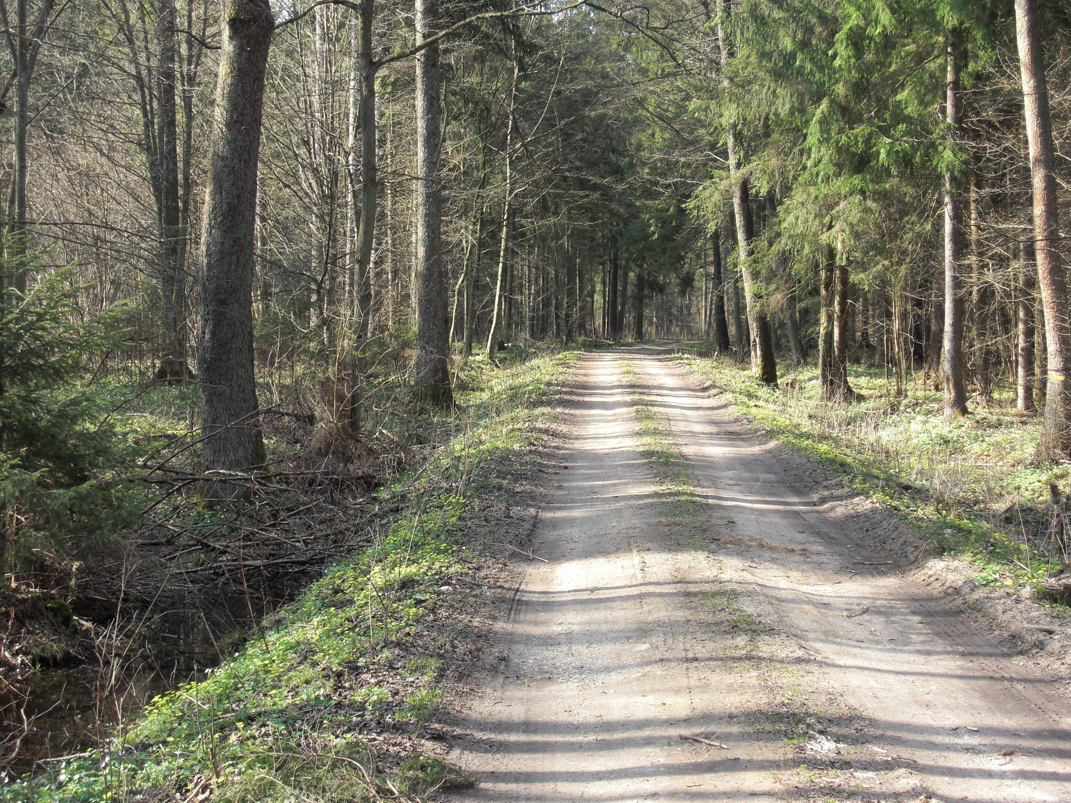 a road in Białowieża Forest from Sorocza Nóżka to Szczekotowo (sq. 179C)